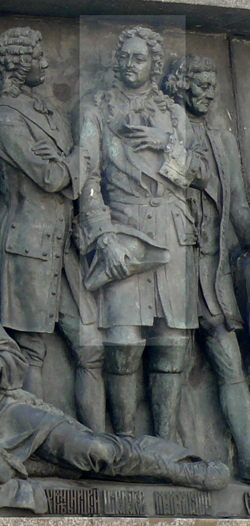 Mikhail Golitsyn on the Monument «Millennium of Russia» in Veliky Novgorod